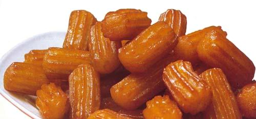 Picture of tulumba taken in Macedonia.